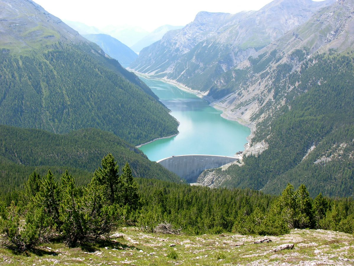 Swiss National Park